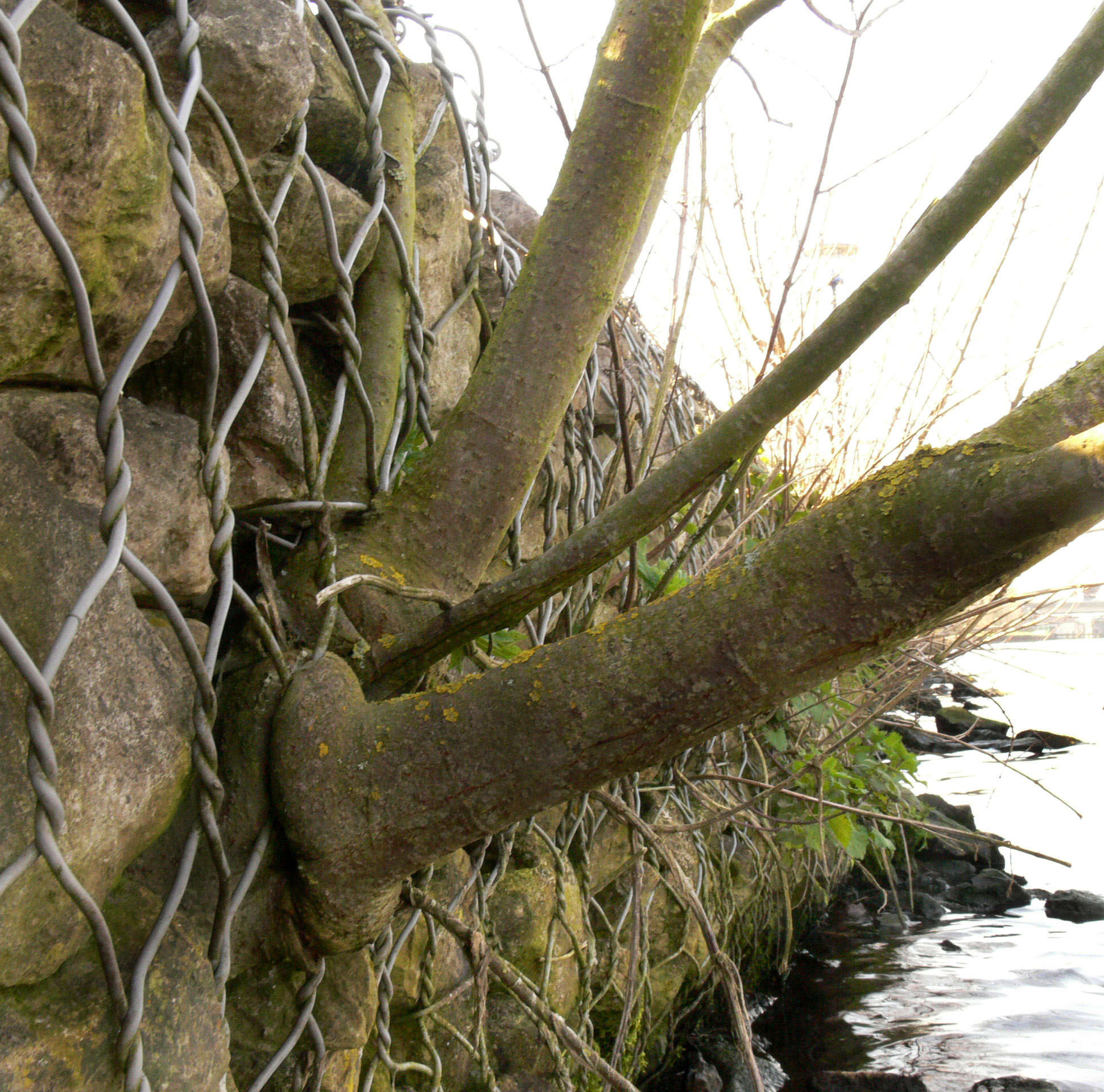 Lambersart, on the edge of the Deûle River, in the north of france, near Lille